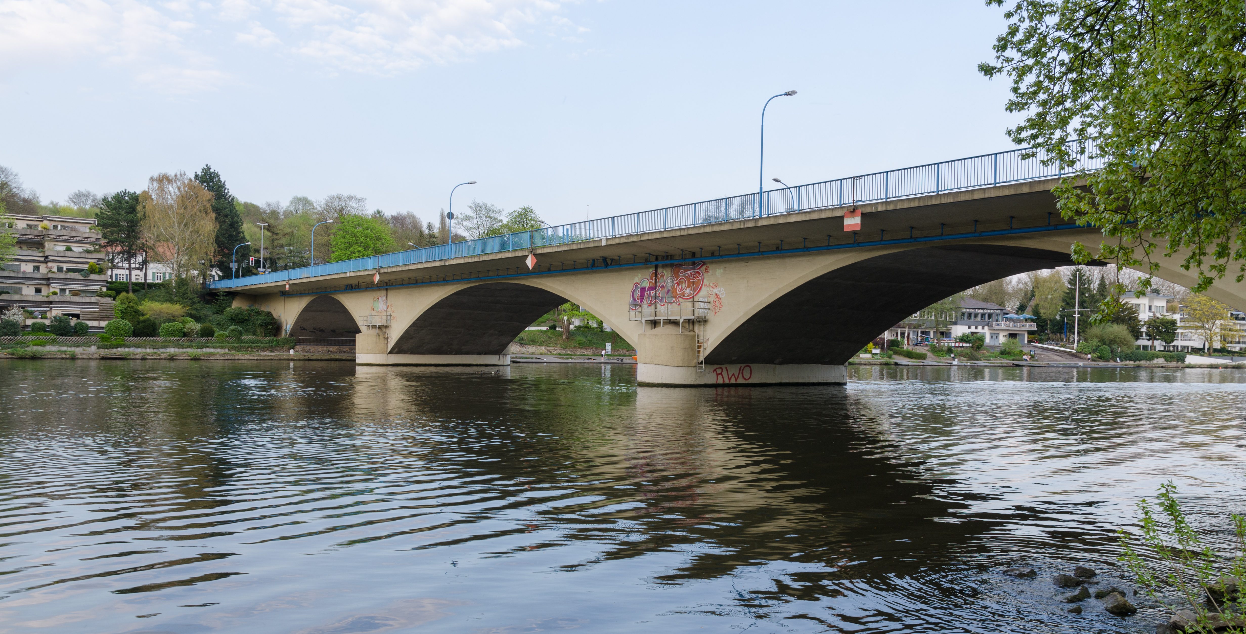 Menden Bridge photographed from Ruhr grassland